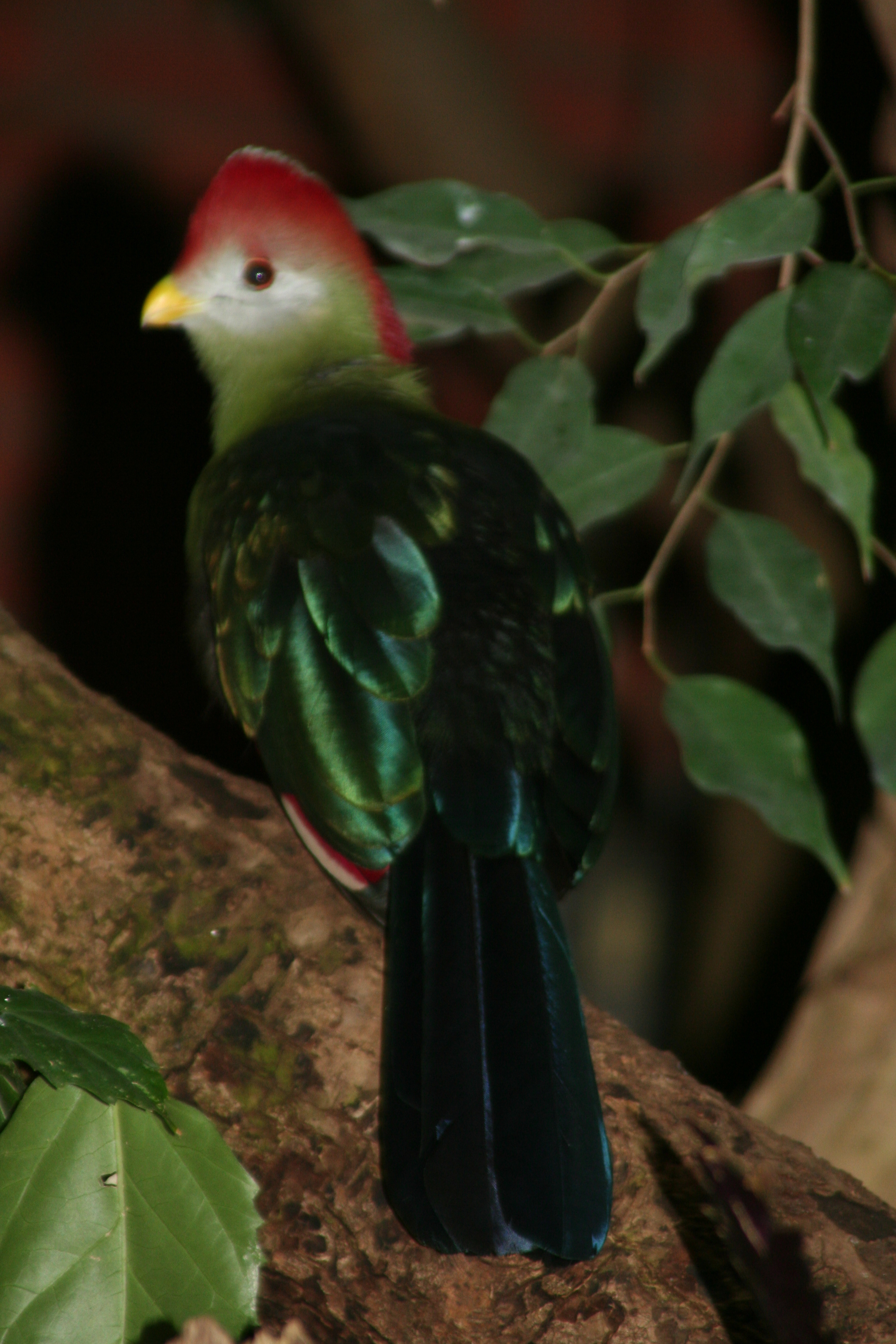 Tauraco erythrolophus, Walsrode